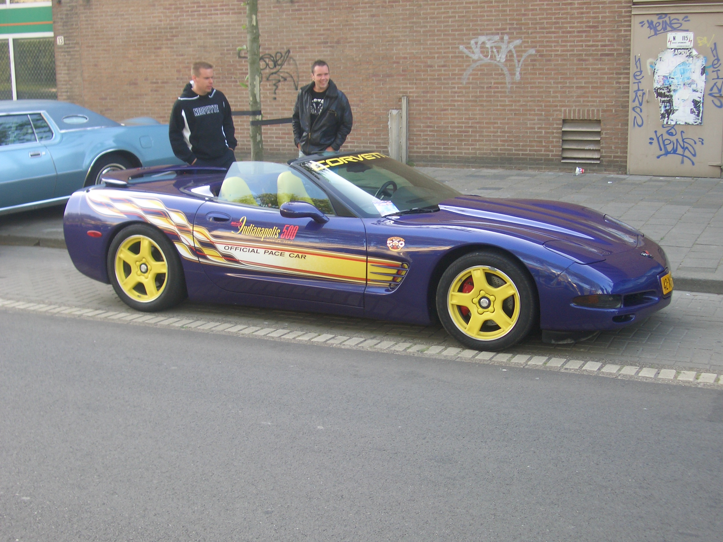 Author: Elmschrat source: photograph taken by myself date: May 05, 2007 Location: Den Haag, The Netherlands